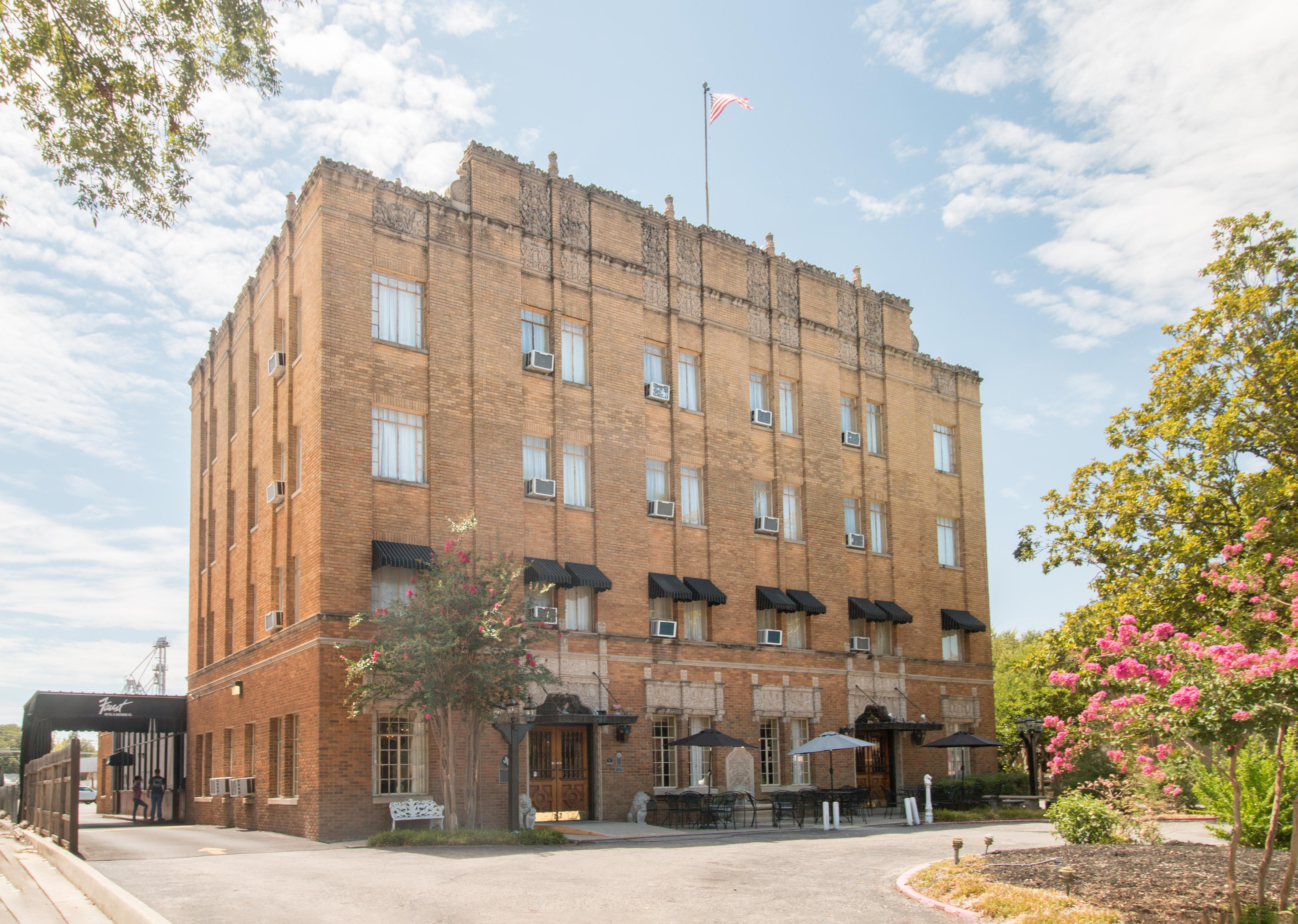 Faust Hotel in New Braunfels, Texas